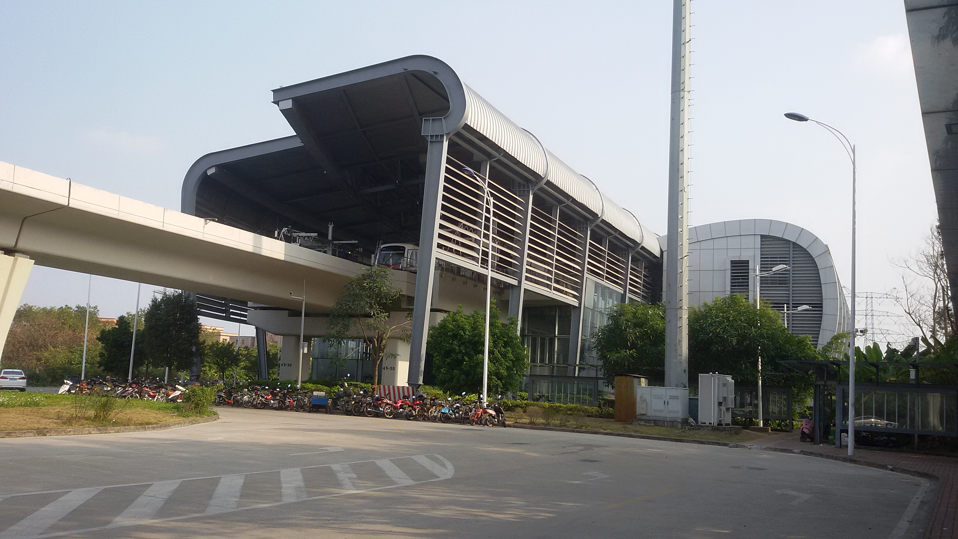 Station Surface for Dongchong Station in Guangzhou Metro.